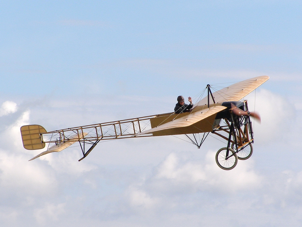 A Bleriot XI at Kristianstad Airshow 2006.